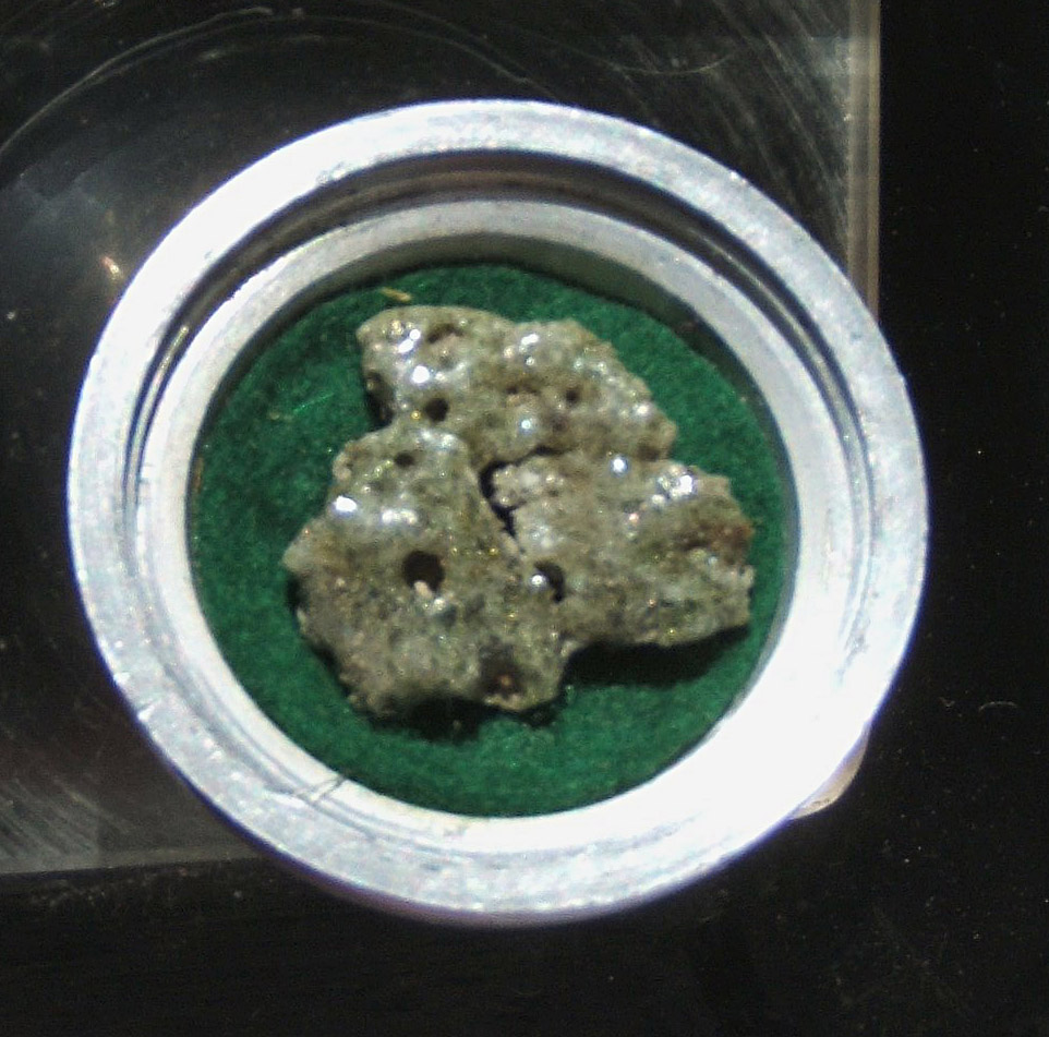 Picture taken by me.